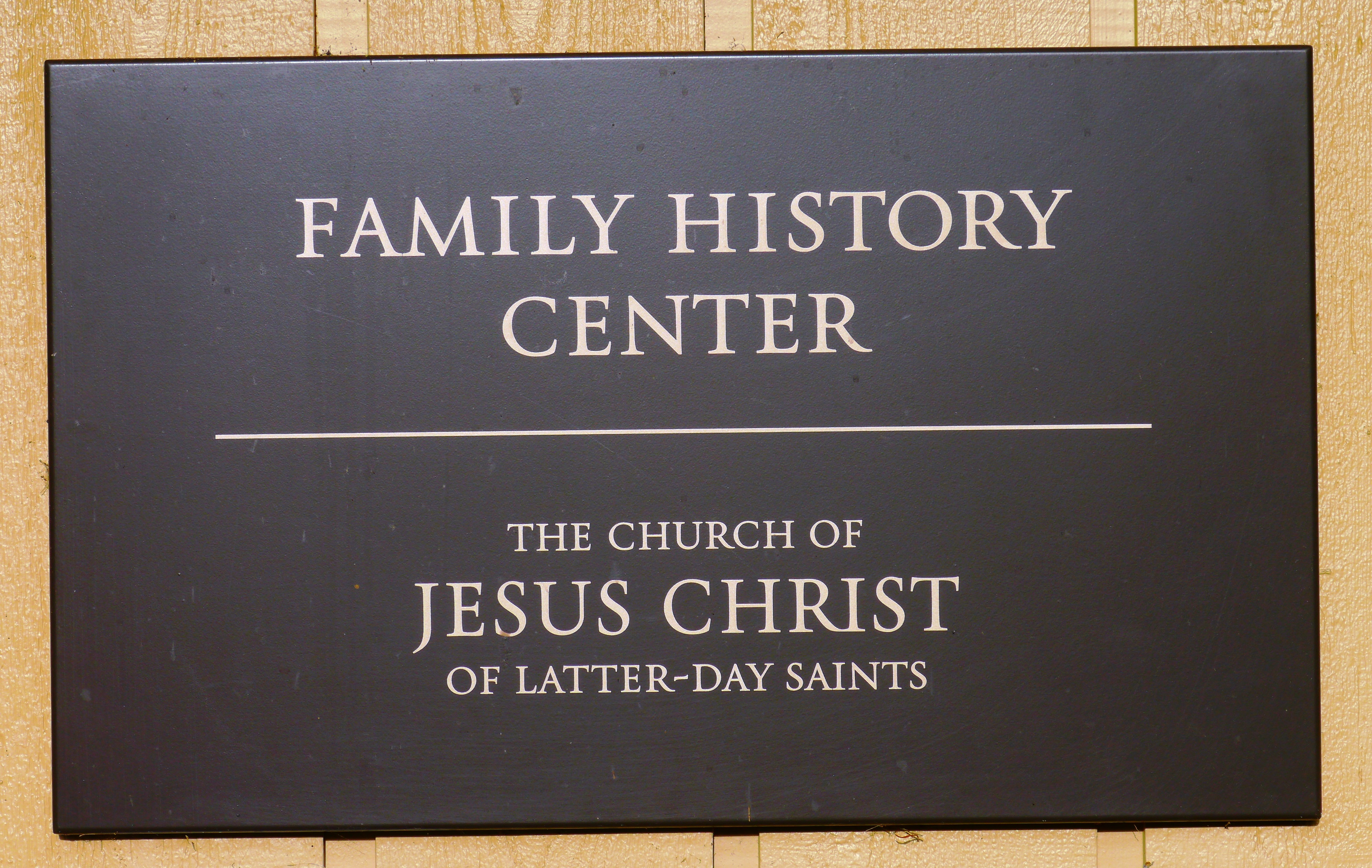 The Eugene Family History Center is located at the Church of Jesus Christ of Latter Day Saints campus at 3500 W. 18th Avenue in Eugene, Oregon. (